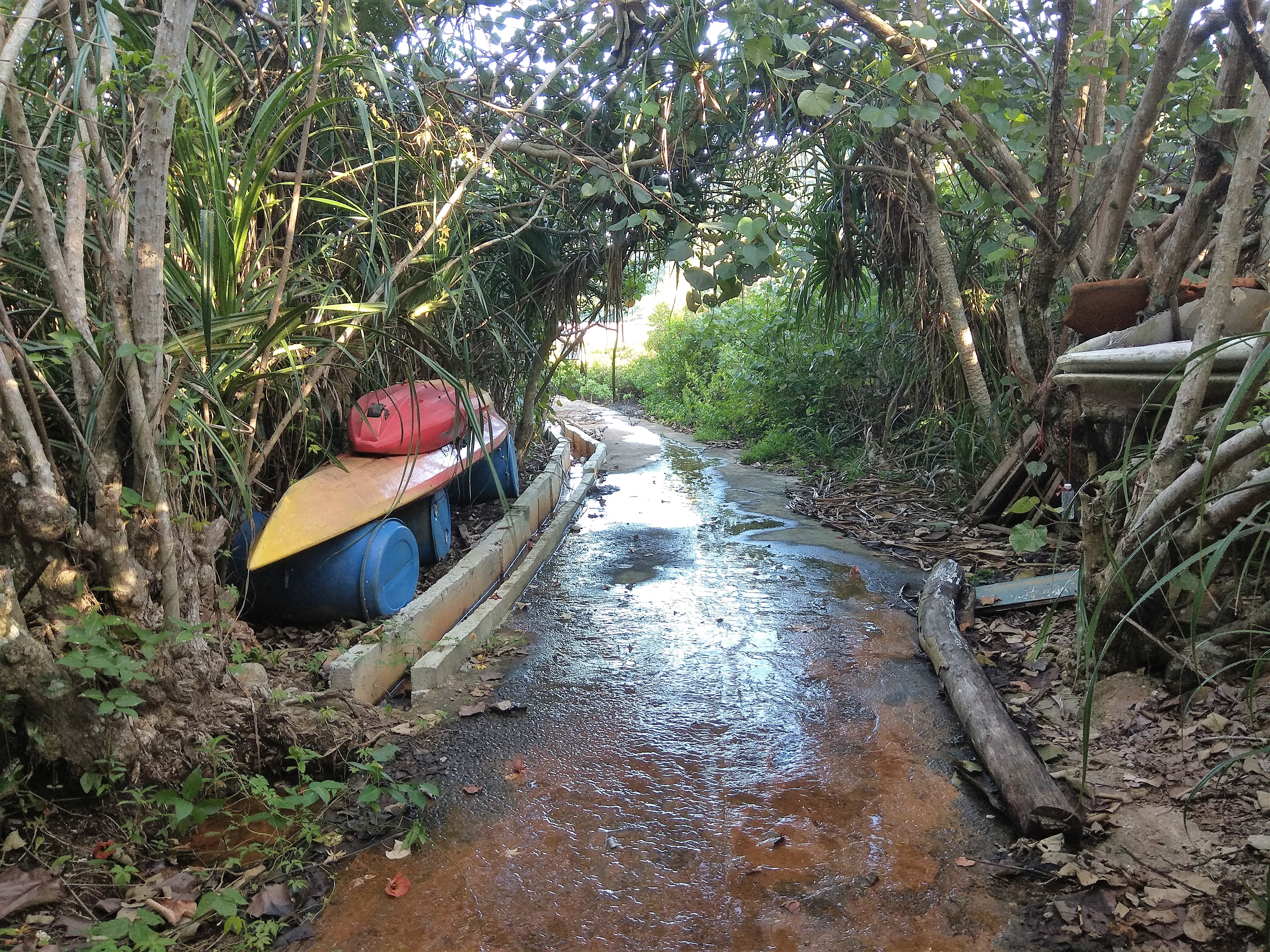 Nga Yiu Tau, Tai Po District